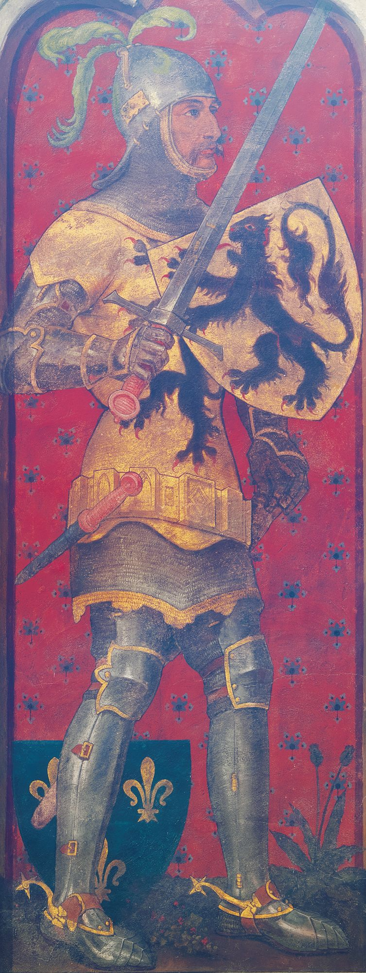 Louis I of Flanders